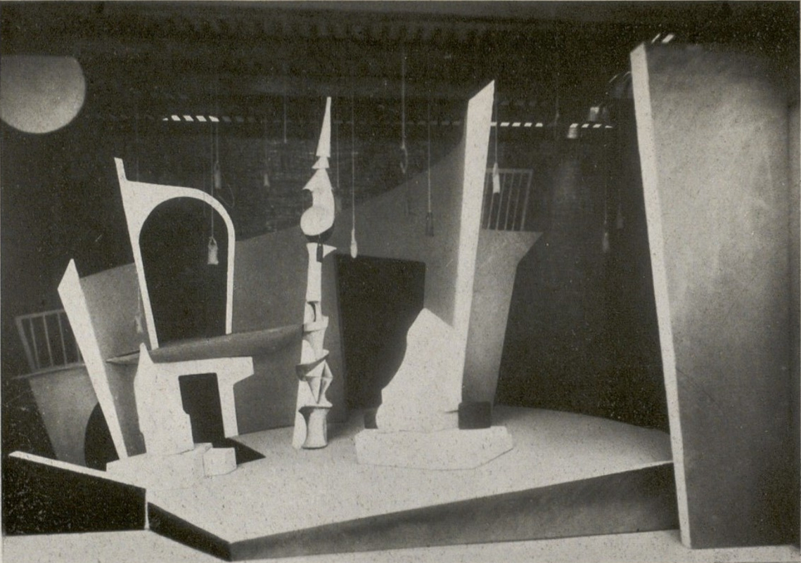 Ignati Nivinski. Scene model for the play “Princess Turandot” Moscow, 1922, Vakhtangov Theatre The scene model was exhibited at the Exposition internationale des Arts décoratifs et industriels modernes (1925)